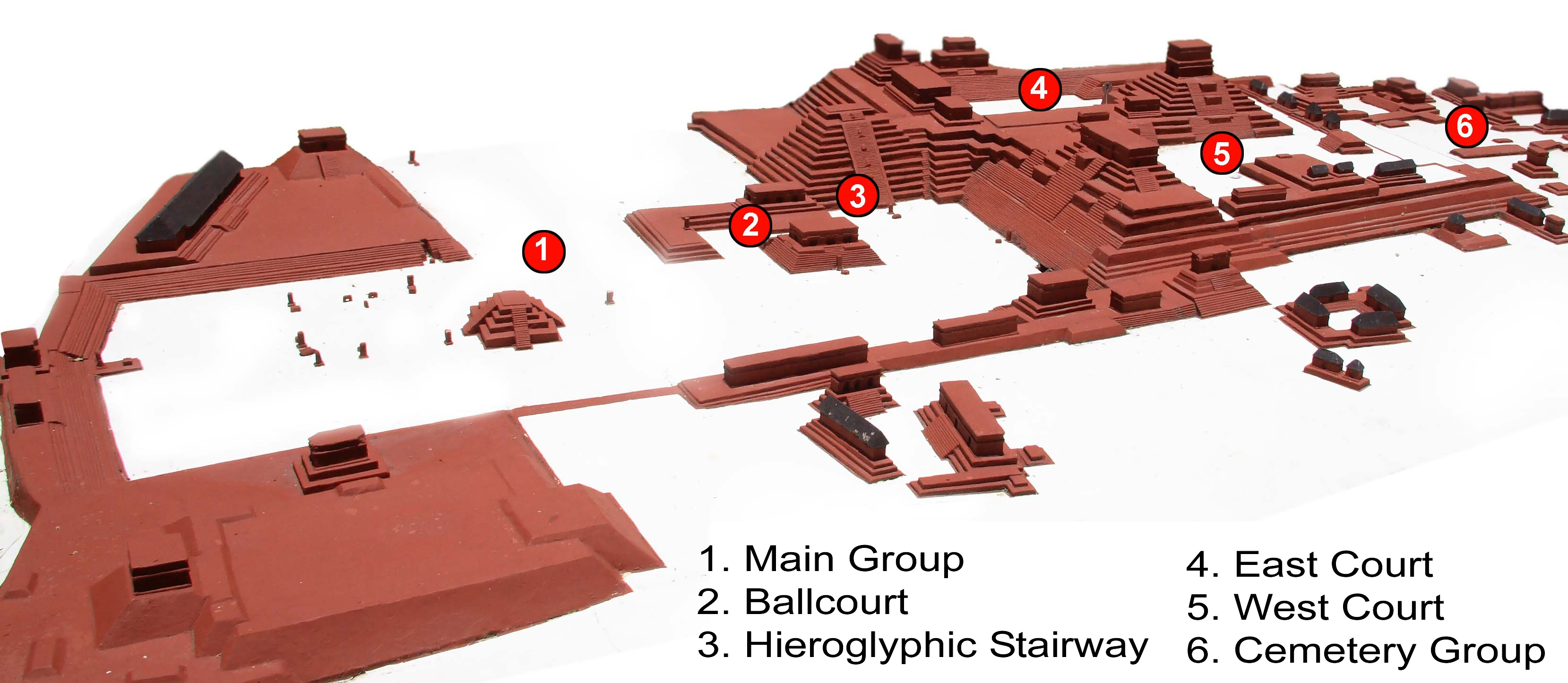 Centre of Copán, with English legend